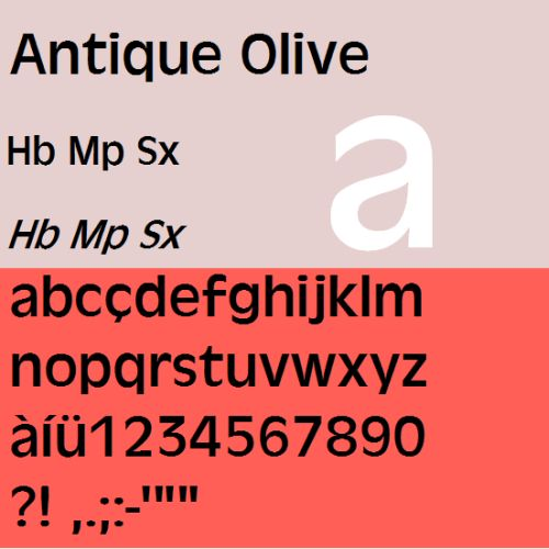 Antique Olive Typeface